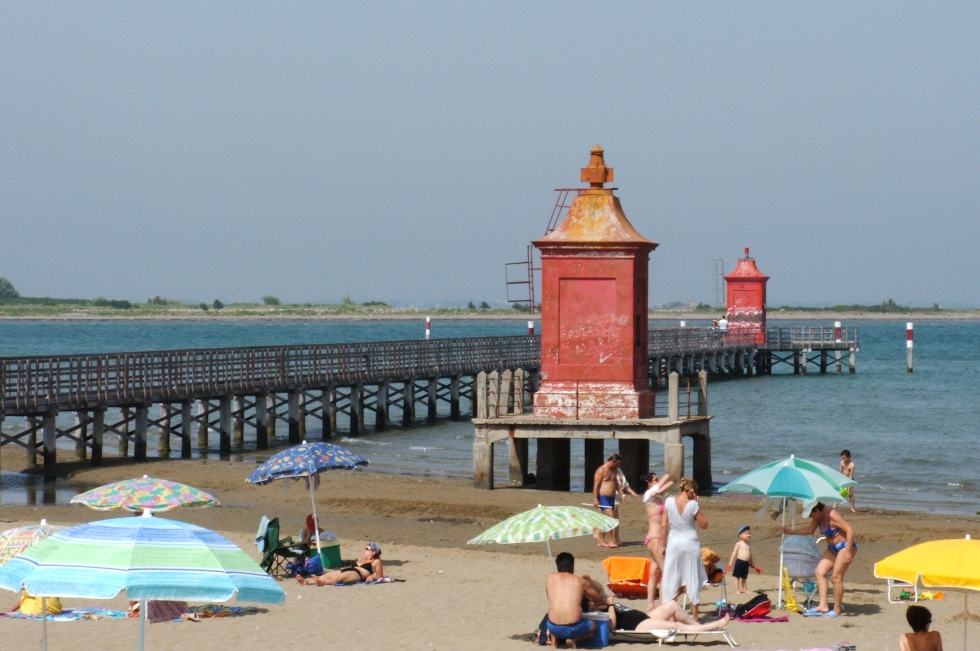 Lignano Sabbiadoro (UD), Italy - lighthouse and beach